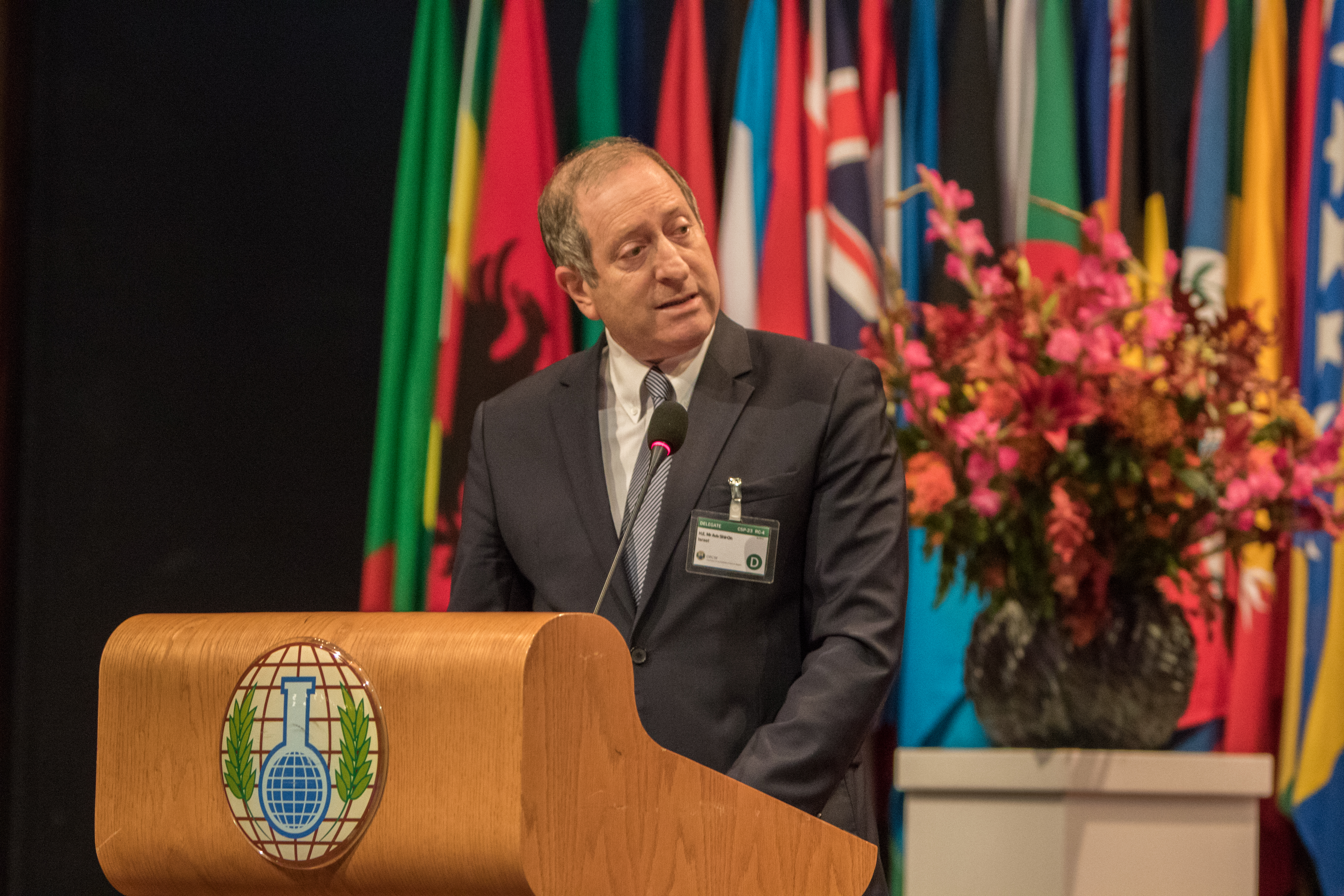 H.E. Ambassador Aviv Shir-On, Embassy of the State of Israel, speaking at OPCW's Fourth Review Conference. The Conference is held at the World Forum, The Hague, the Netherlands, from 21-30 November 2018.